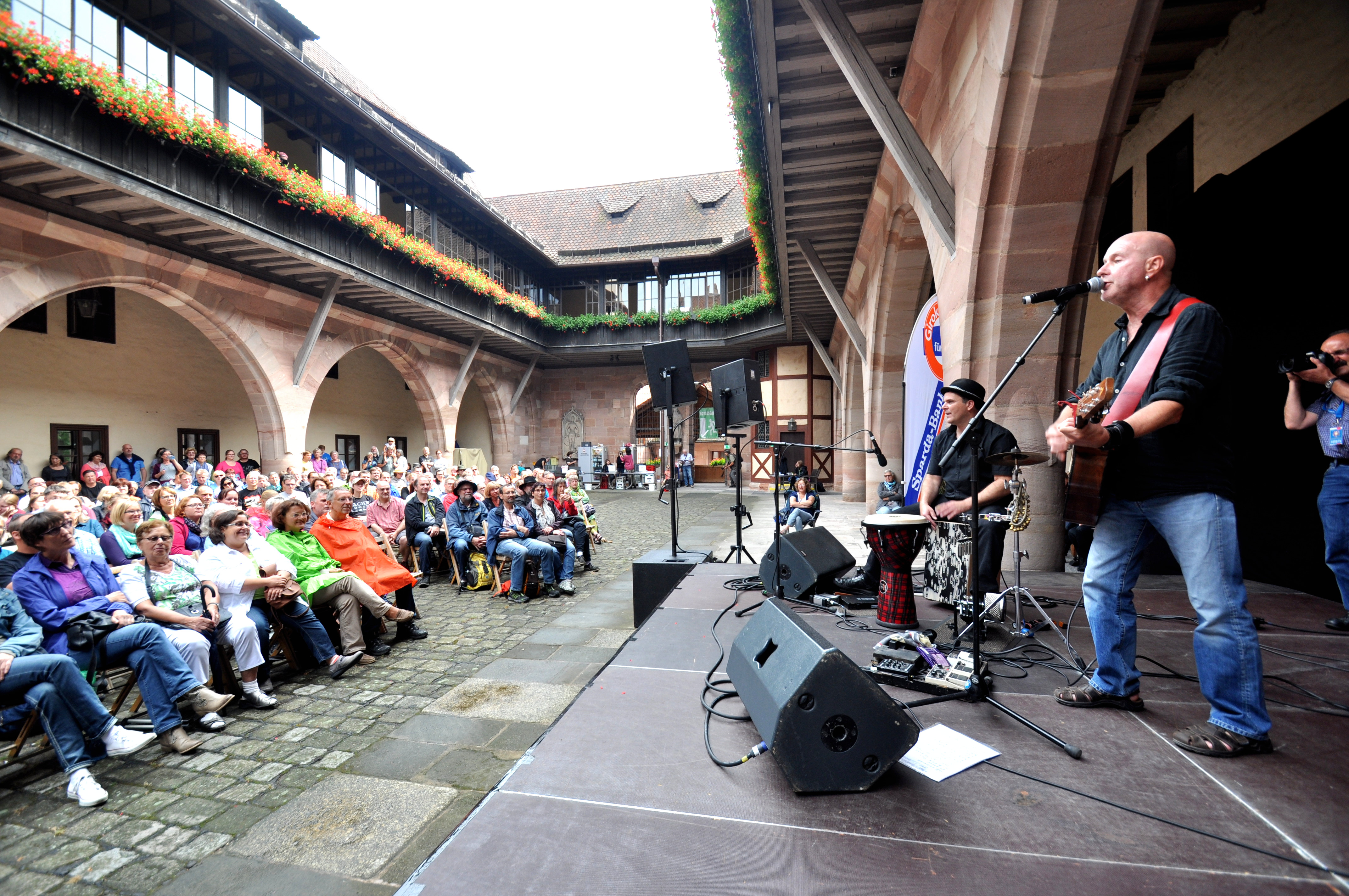 Kieran Halpin & Yogi Jockusch (IRL/DEU), crucifixion court stage, 40th music festival 'Bardentreffen' 2015 at Nuremberg, Germany Festivalsommer This photo was created with the support of donations to Wikimedia Deutschland in the context of the CPB project "Festival Summer".